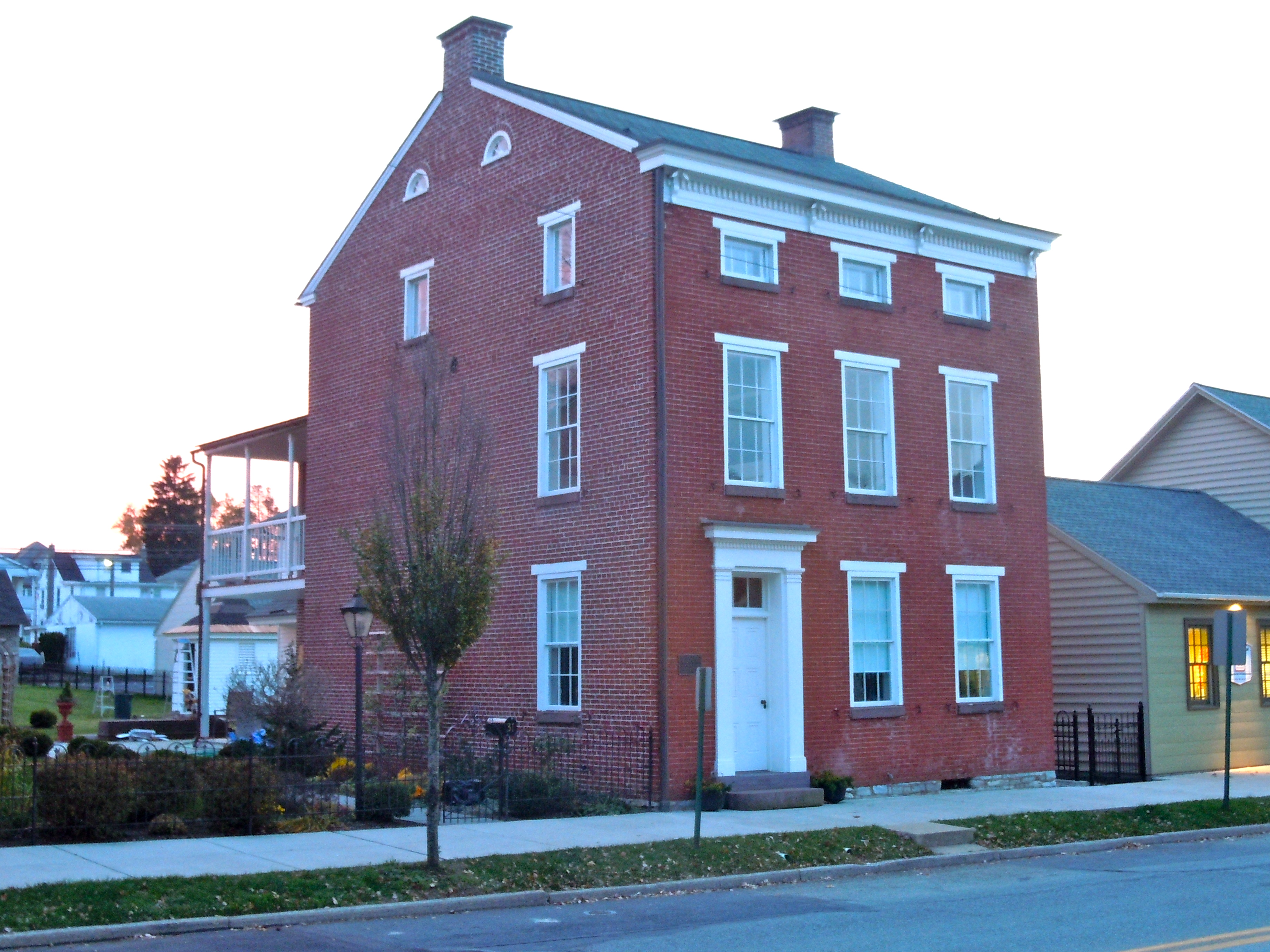 Dr. William Henderson House on the NRHP since May 14, 1979. At 31 East Main Street, Hummelstown, Dauphin County, Pennsylvania.